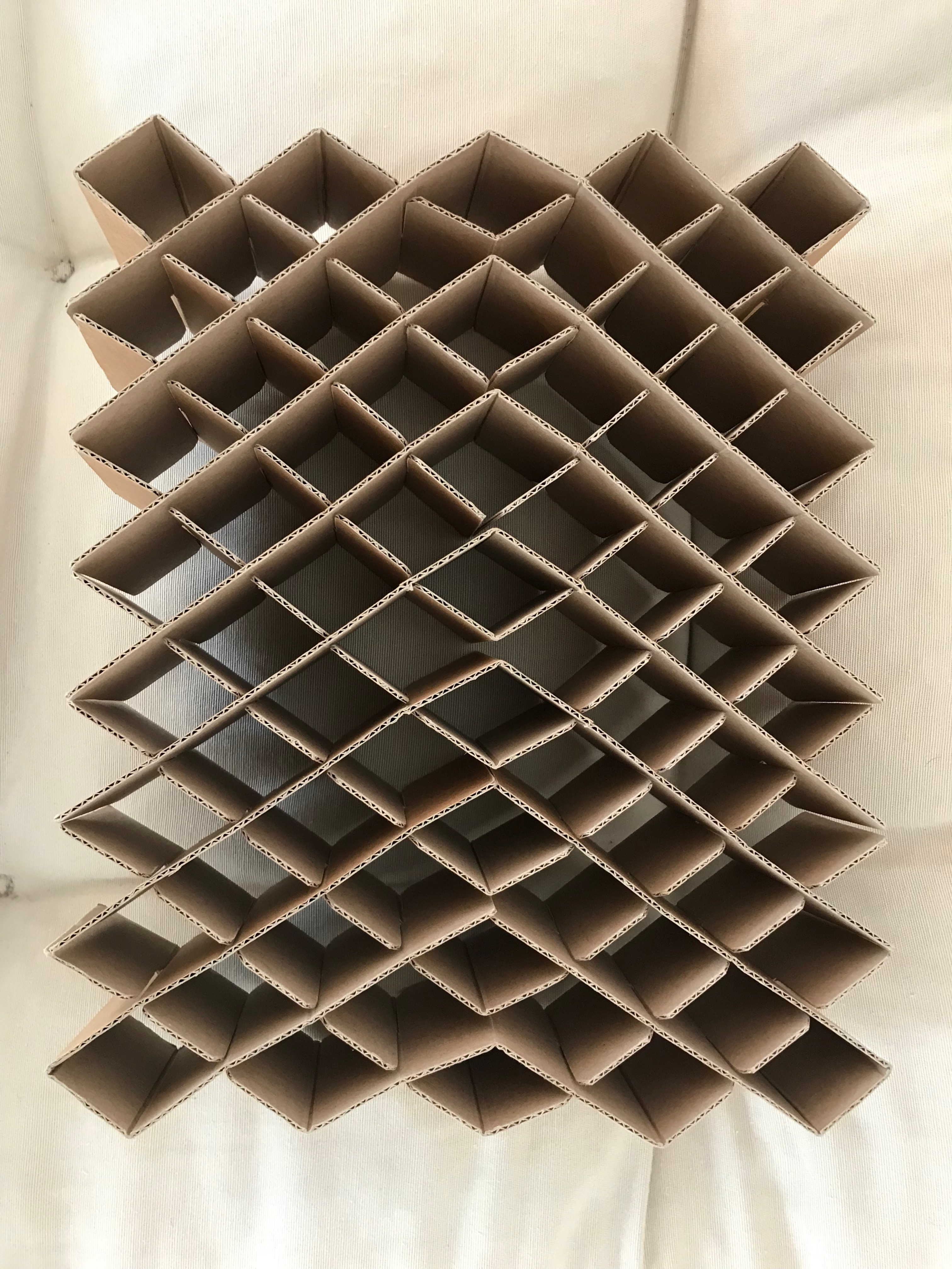 Ziehharmonika-Pappbett. Hersteller: ROOM IN A BOX GmbH & Co. KG, Berlin - Bett aus Wellpappe